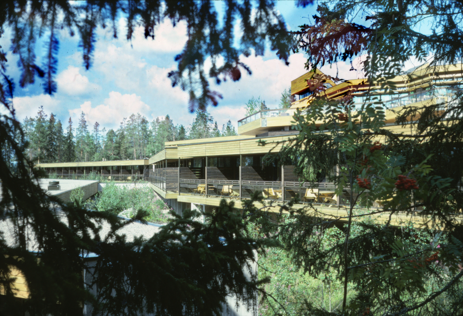 Hotel Meskikämmen in Ähtäri, Finland